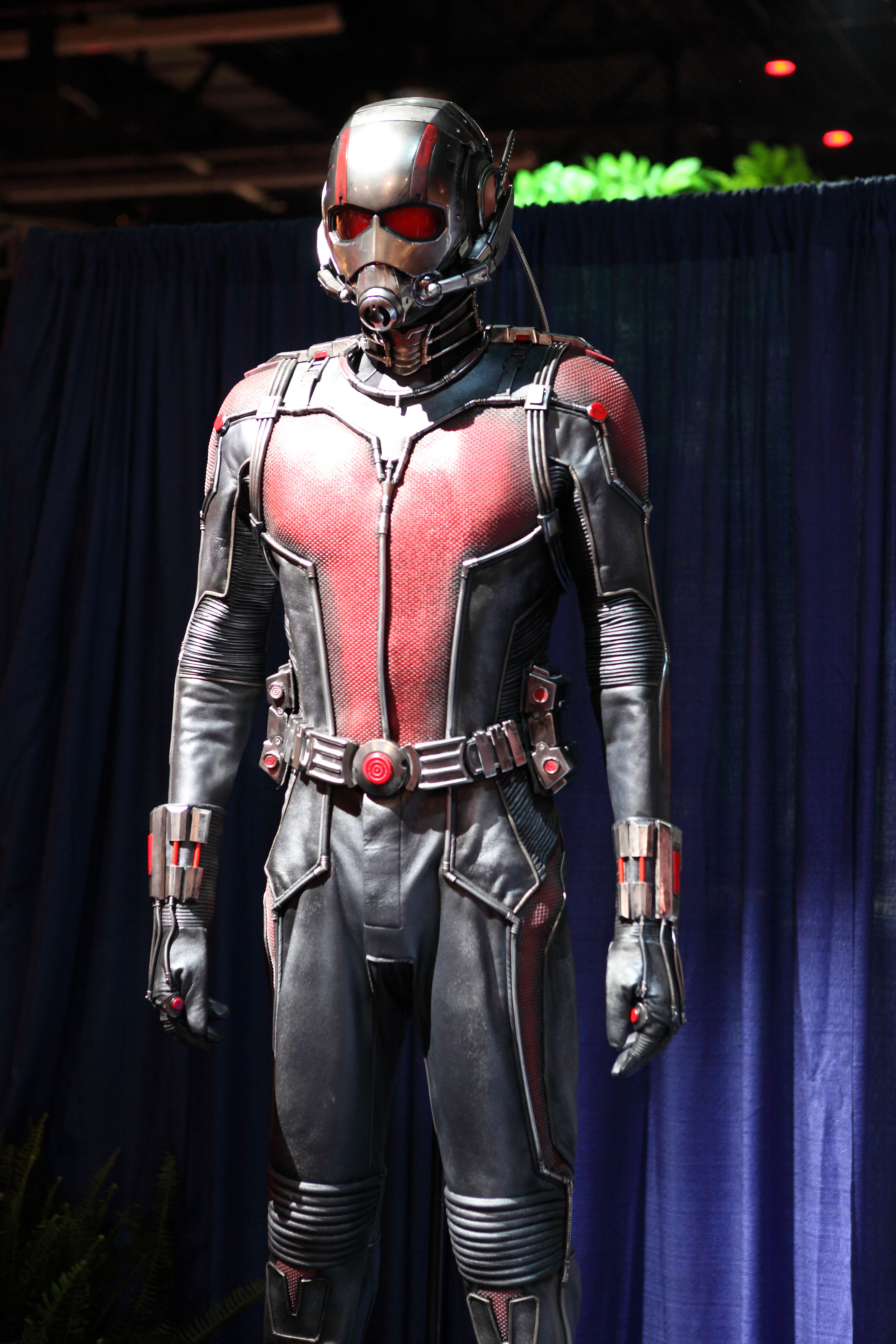 D23 Expo 2015 Ant-Man